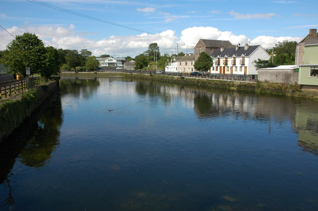 The River Deel at Askeaton